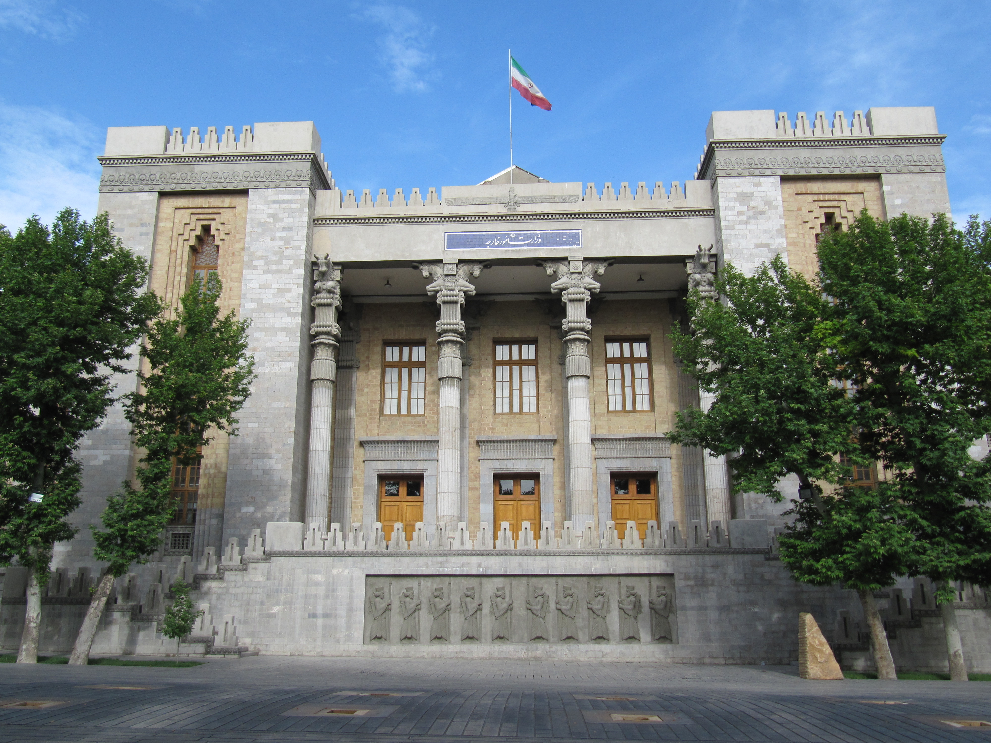 The building of Iran's Ministry of Foreign Affairs uses pre-Islamic Persian architecture extensively in its facade.